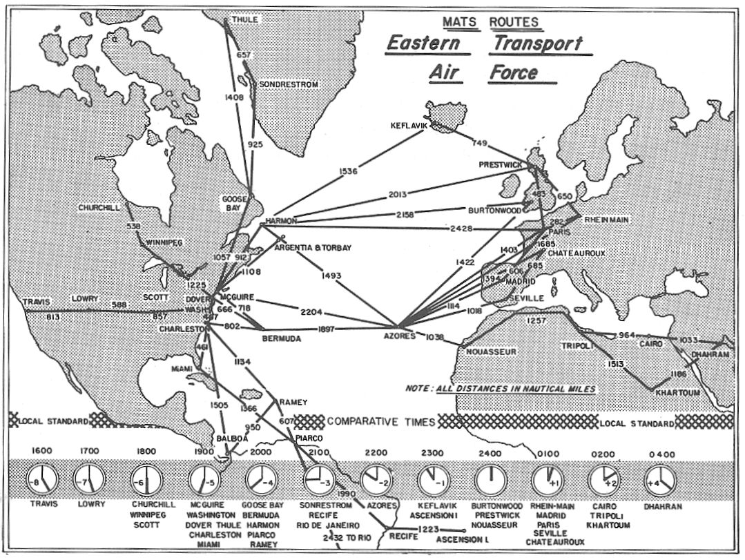 Routemap of the MATS Eastern Transport Air Force, 1964